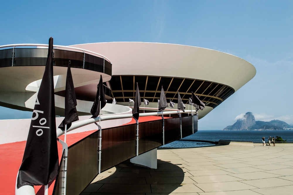 Image of the installation "Progression" at Museu de Arte Contemporânea de Niterói